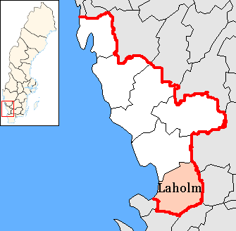 Laholm Municipality in Halland County Designd by me, based on Image:Halland County.png